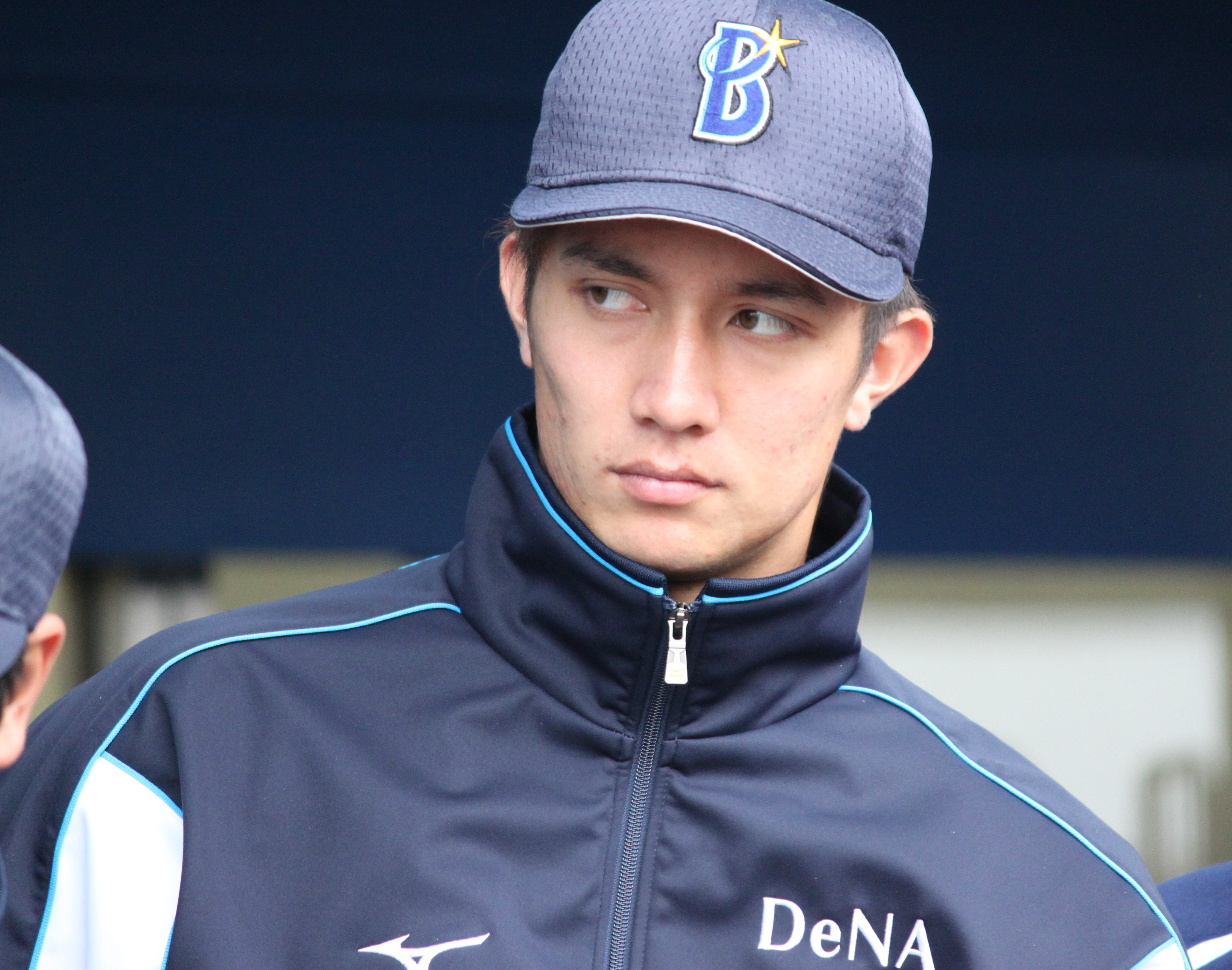 Yuki Kuniyoshi, pitcher of the Yokohama DeNA BayStars, at Yokohama Stadium.